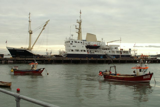 Patricia the Trinity House Flagship IMO Number: 8003632 MMSI Number: 232647000 Callsign: GBTH Length: 86 m Beam: 13 m